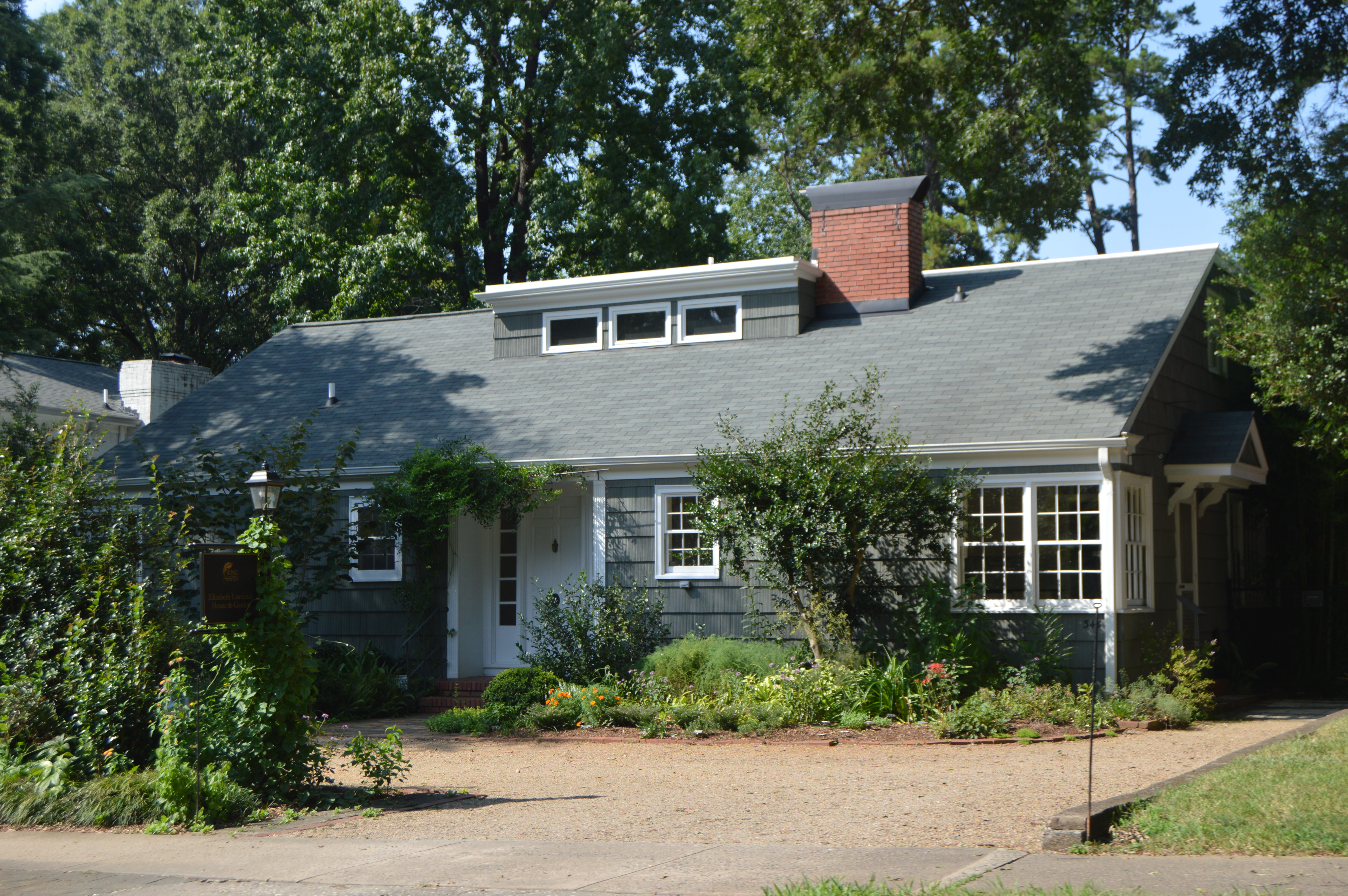 Front of the Elizabeth Lawrence House, located at 348 Ridgewood Avenue in Charlotte, North Carolina, United States. Built in 1948, it is listed on the National Register of Historic Places.